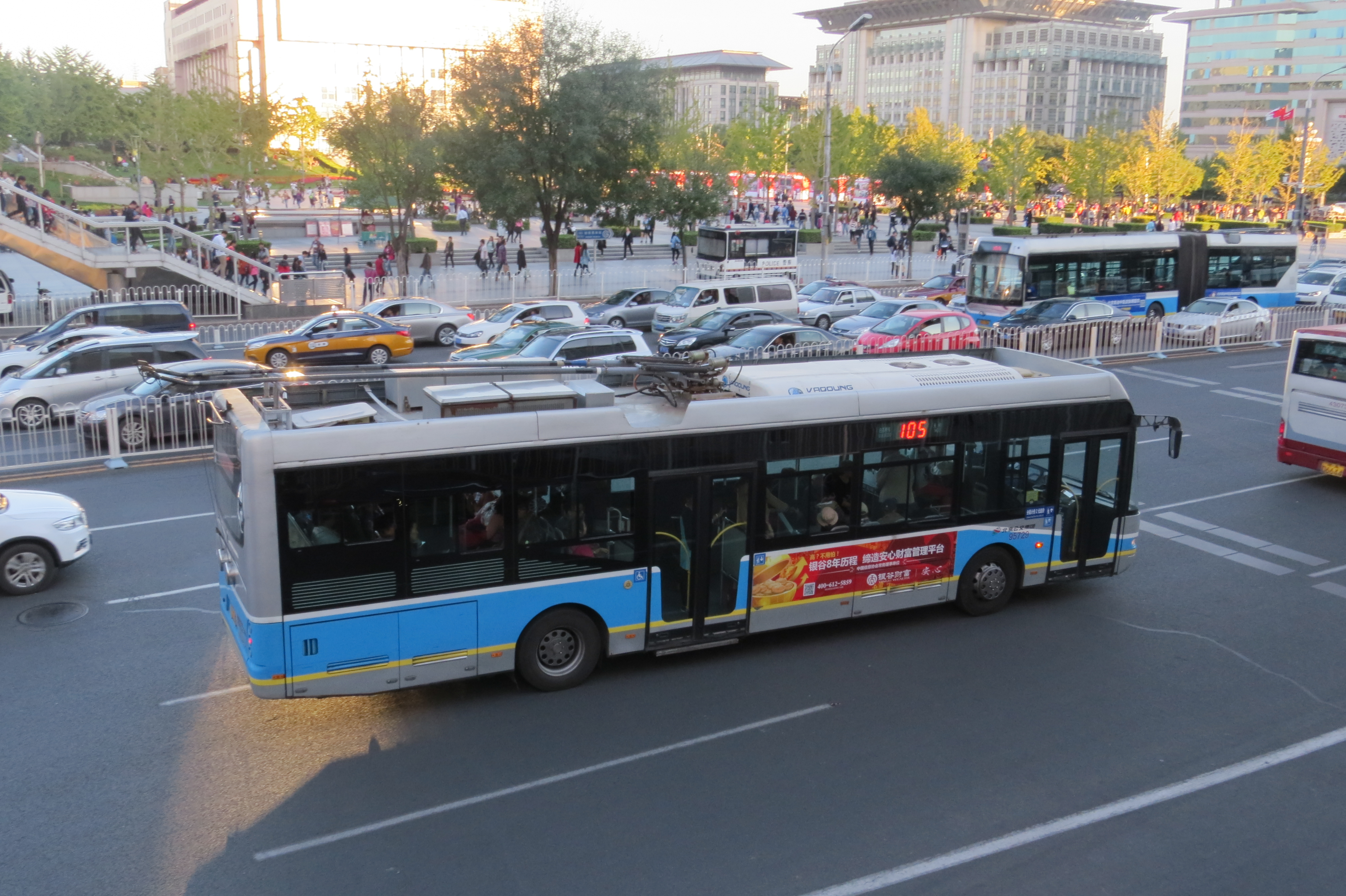 A Neoplan trolleybus at sunset.